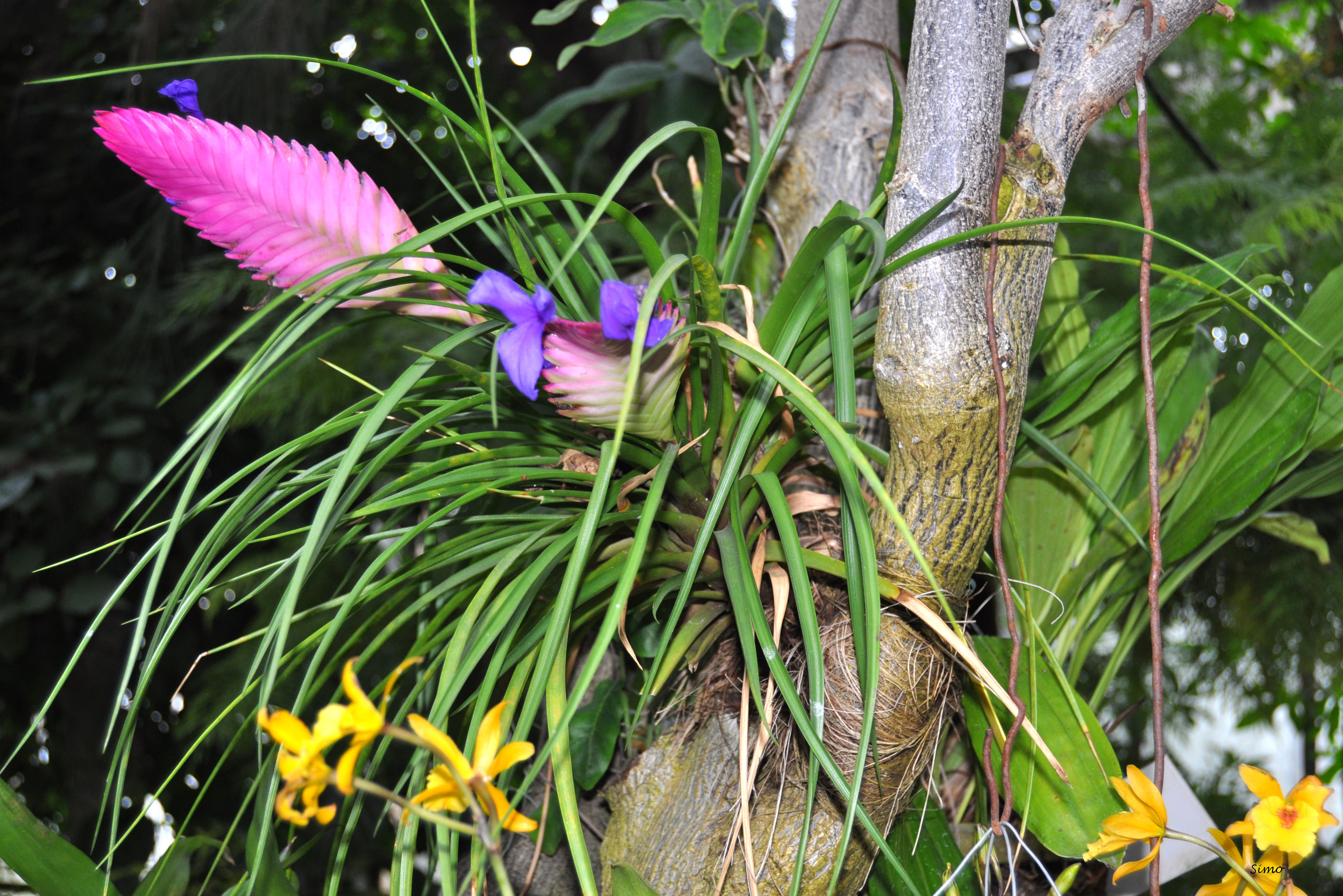 Tillandsia cyanea